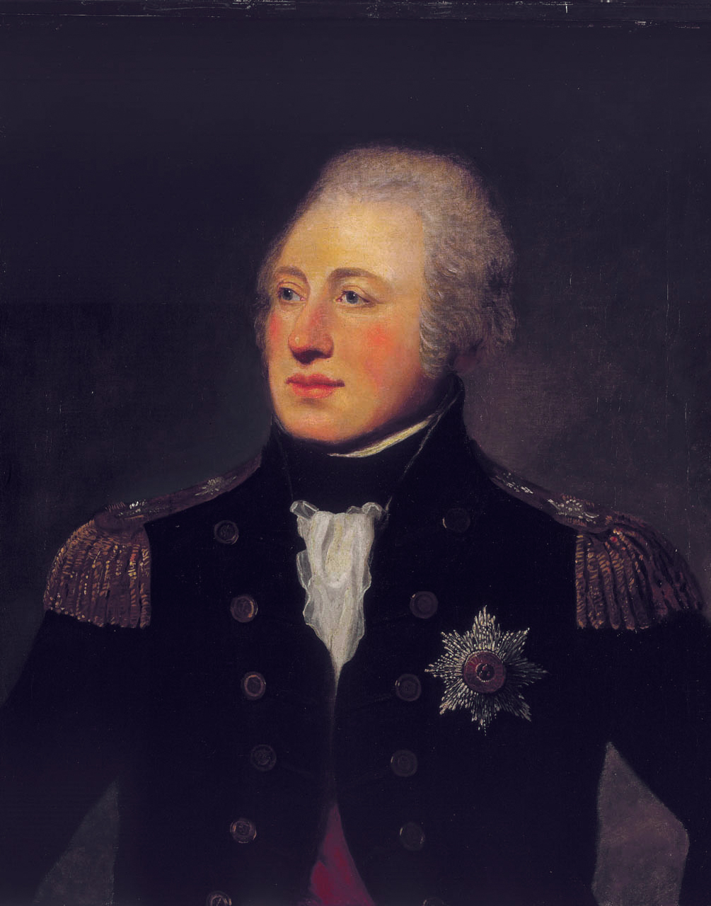 A half-length portrait which depicts the sitter facing left and wearing a vice-admiral's undress uniform of 1795–1812, with the star and ribbon of a Knight Bachelor. As a flag officer under Admiral Duncan in the North Sea, he received the surrender of the remains of the Dutch fleet in the Vlie in 1799. This painting is thought to be a later copy.